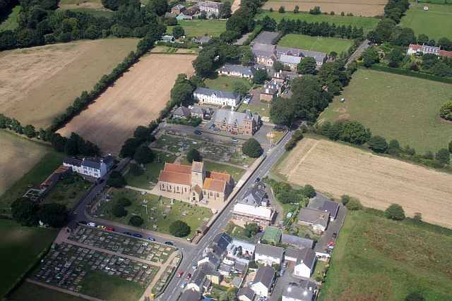 St Lawrence. Viewed from the south east from an aeroplane about to land. The Parish Church of St Lawrence has been called the "Cathedral of Jersey" due to its size and architecture. It had been enlarged during a restoration project in the 1890s, when the height of the tower was raised. The parish hall is just to the north of the church.